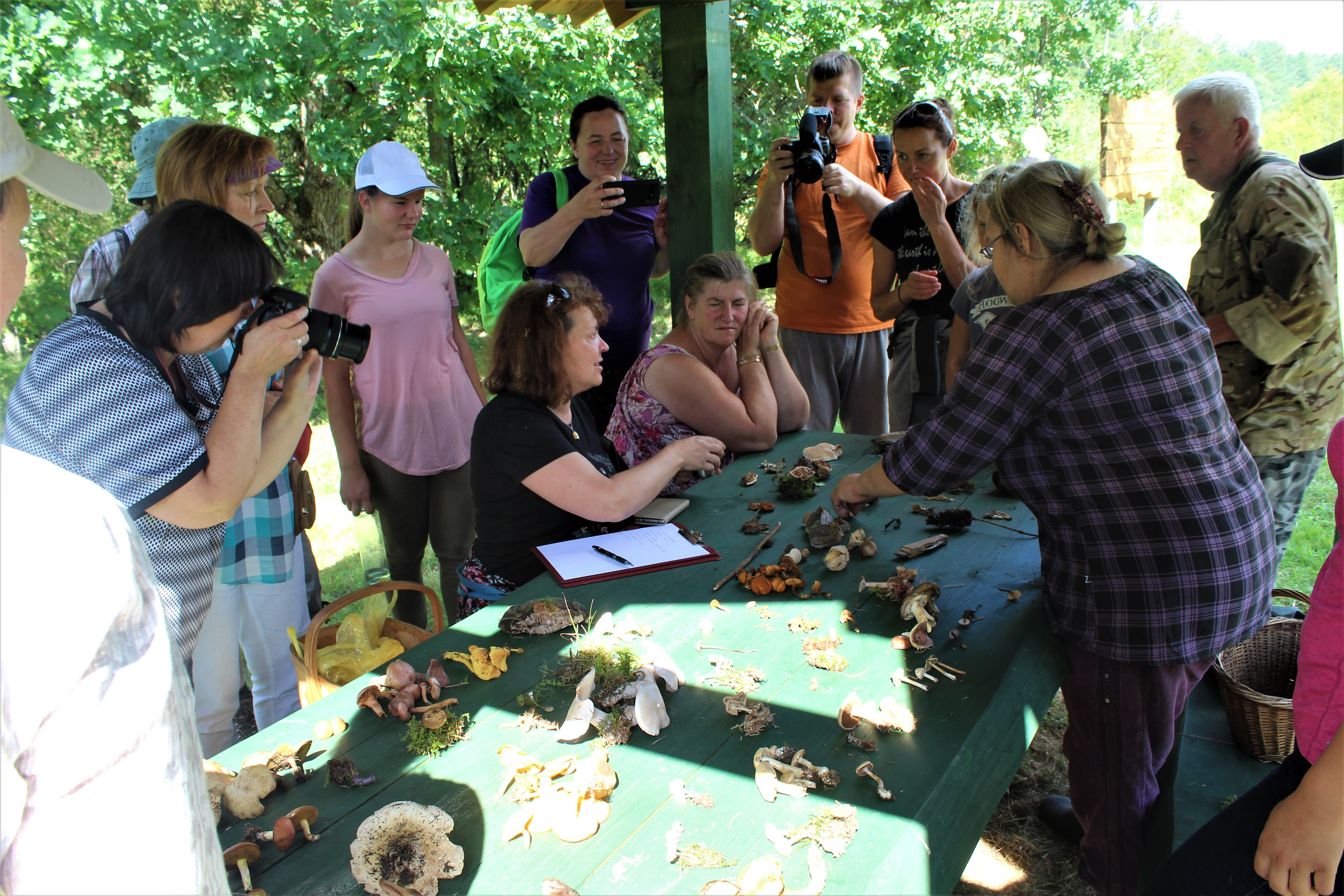 Diāna Meiere (in black at center) speaks about mushrooms for group of interesents, Čužu purvs near town Kandava, 2019.08.24